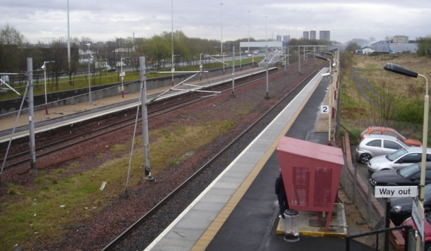 Cardonald railway station, Glasgow, Scotland. Looking east towards Glasgow Central.